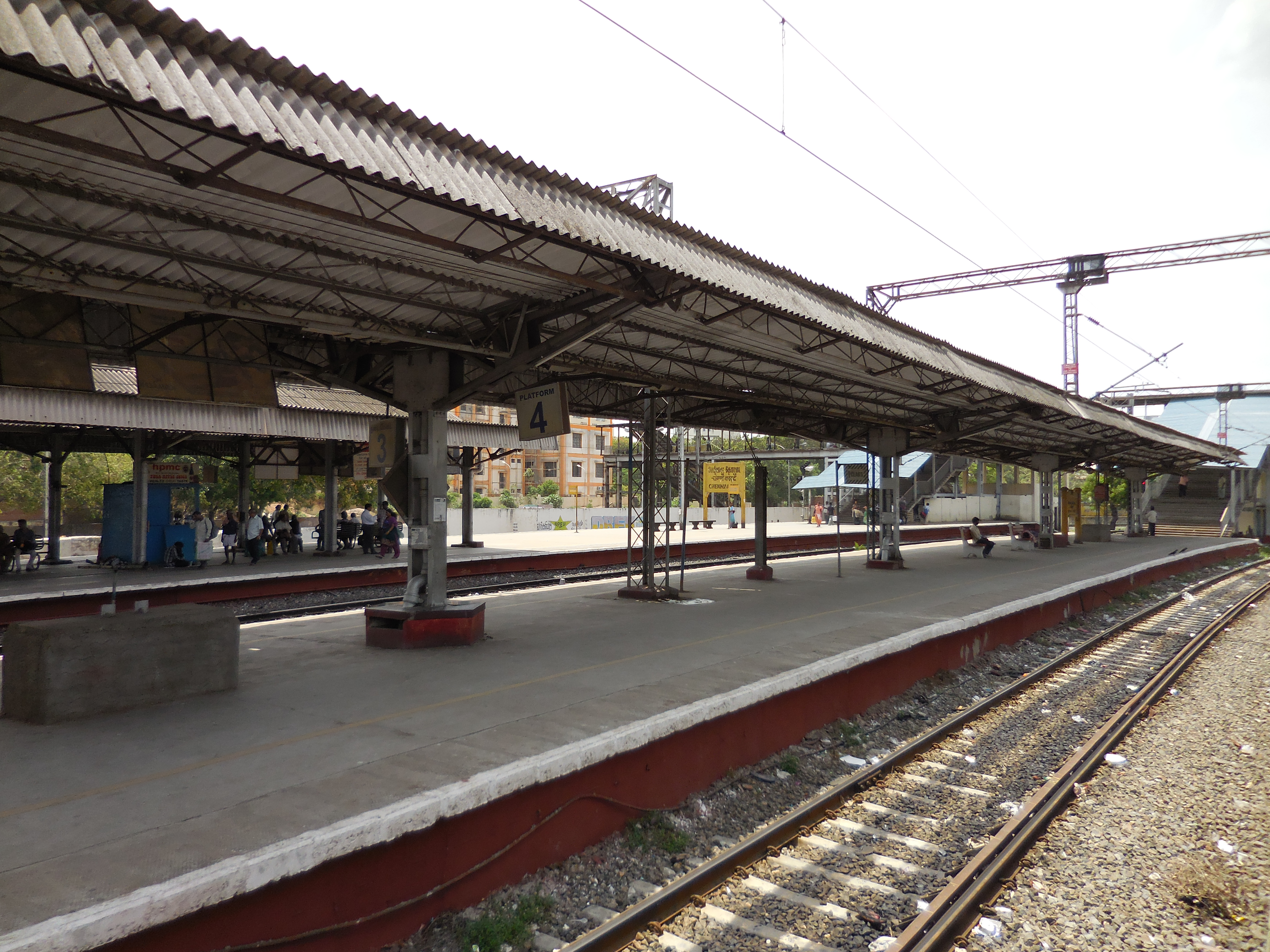 Eastern view of Chennai Fort railway station, taken on 15 July 2014, afternoon.